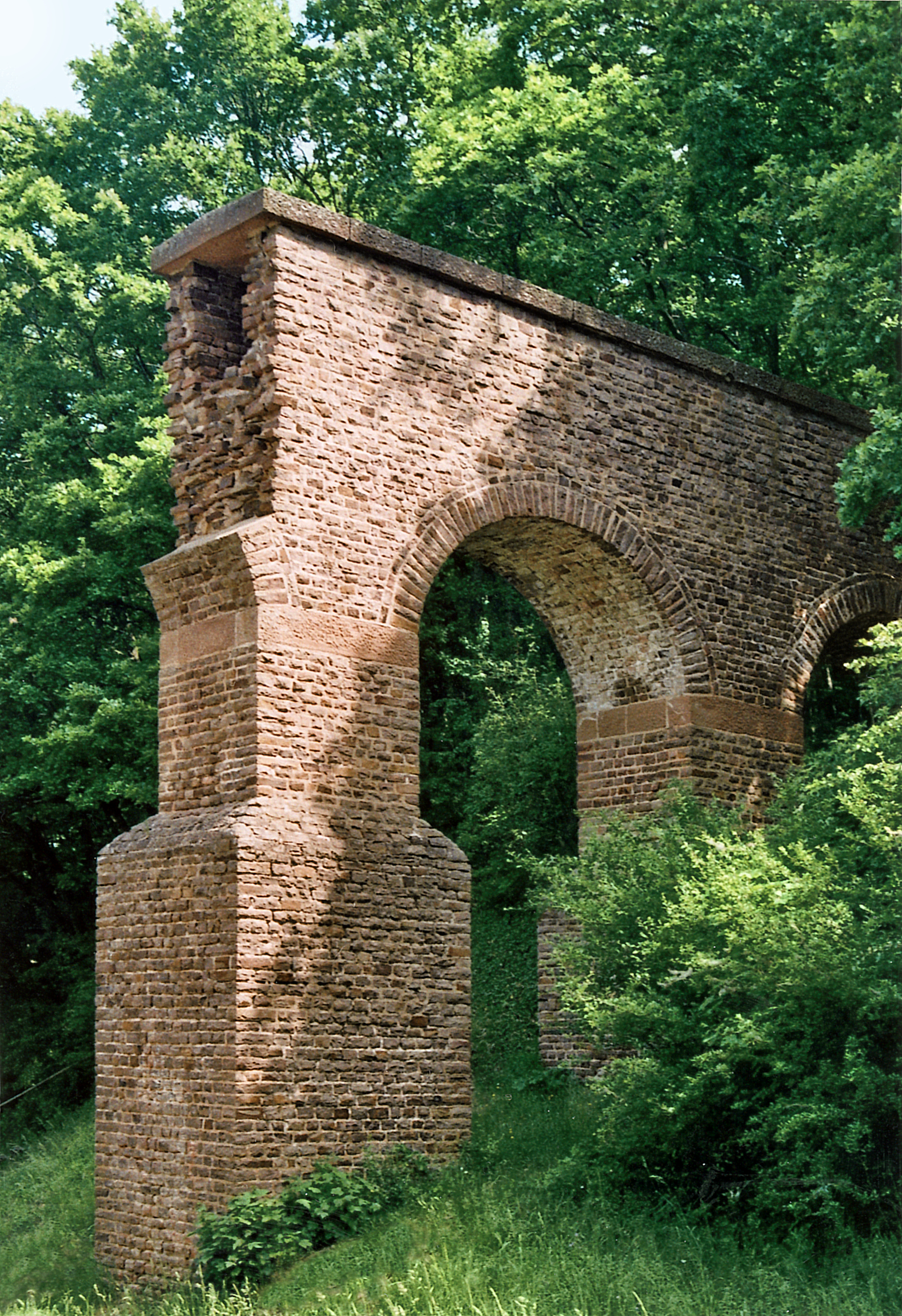 1961 reconstructed Roman Eifel aqueduct near Mechernich-Vussem, Germany.